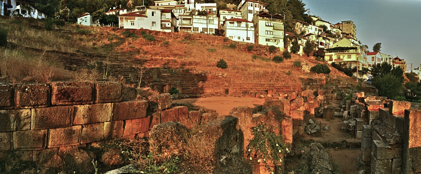 The sign on site says it was late Hellenistic, with stage added about 200AD, abandoned with the city, excavated 1992-95, seated 6,000 on 28 rows. August 2011